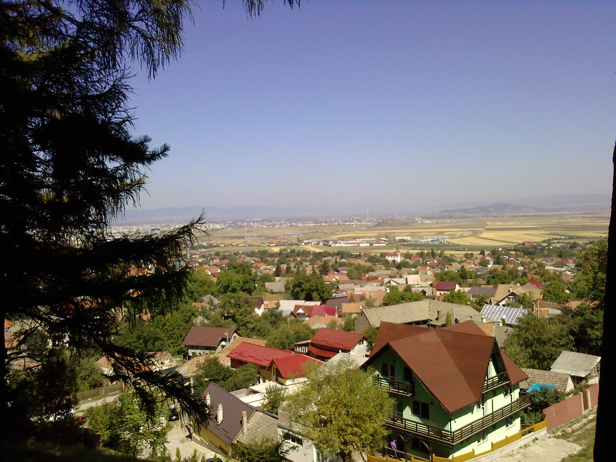 Sacele, Brasov County, Romania